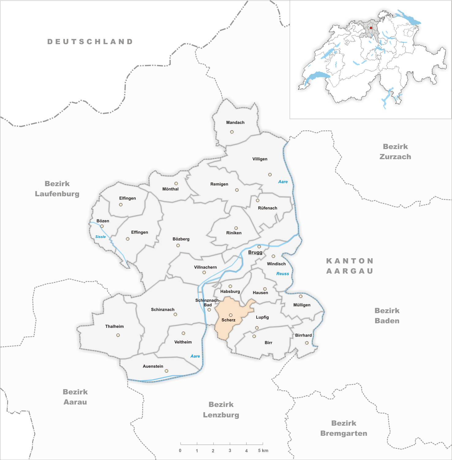 Municipality Scherz